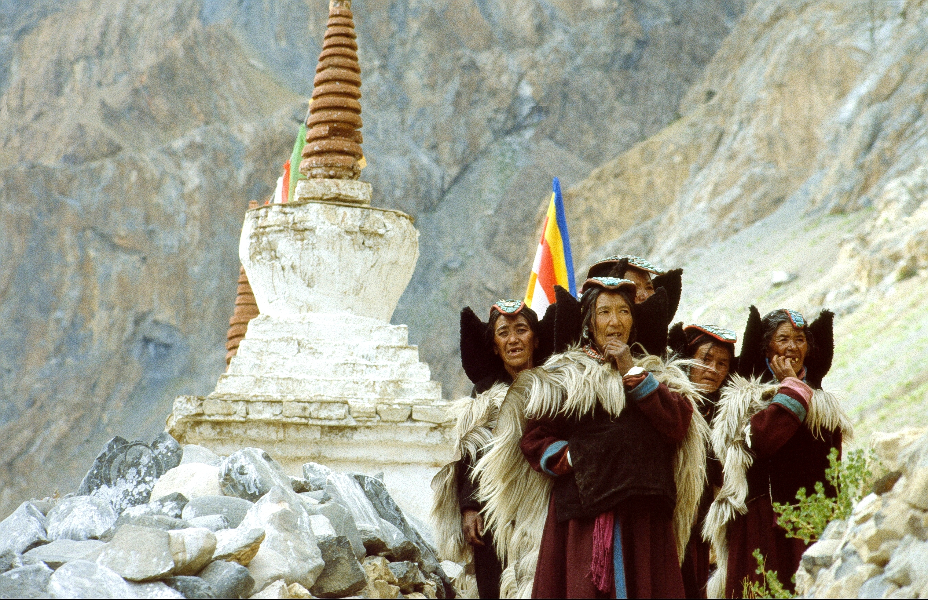 In Lingshed, circumambulation of the Zanskaries womens during visit Rimpoché, Zanskar/Ladakh.